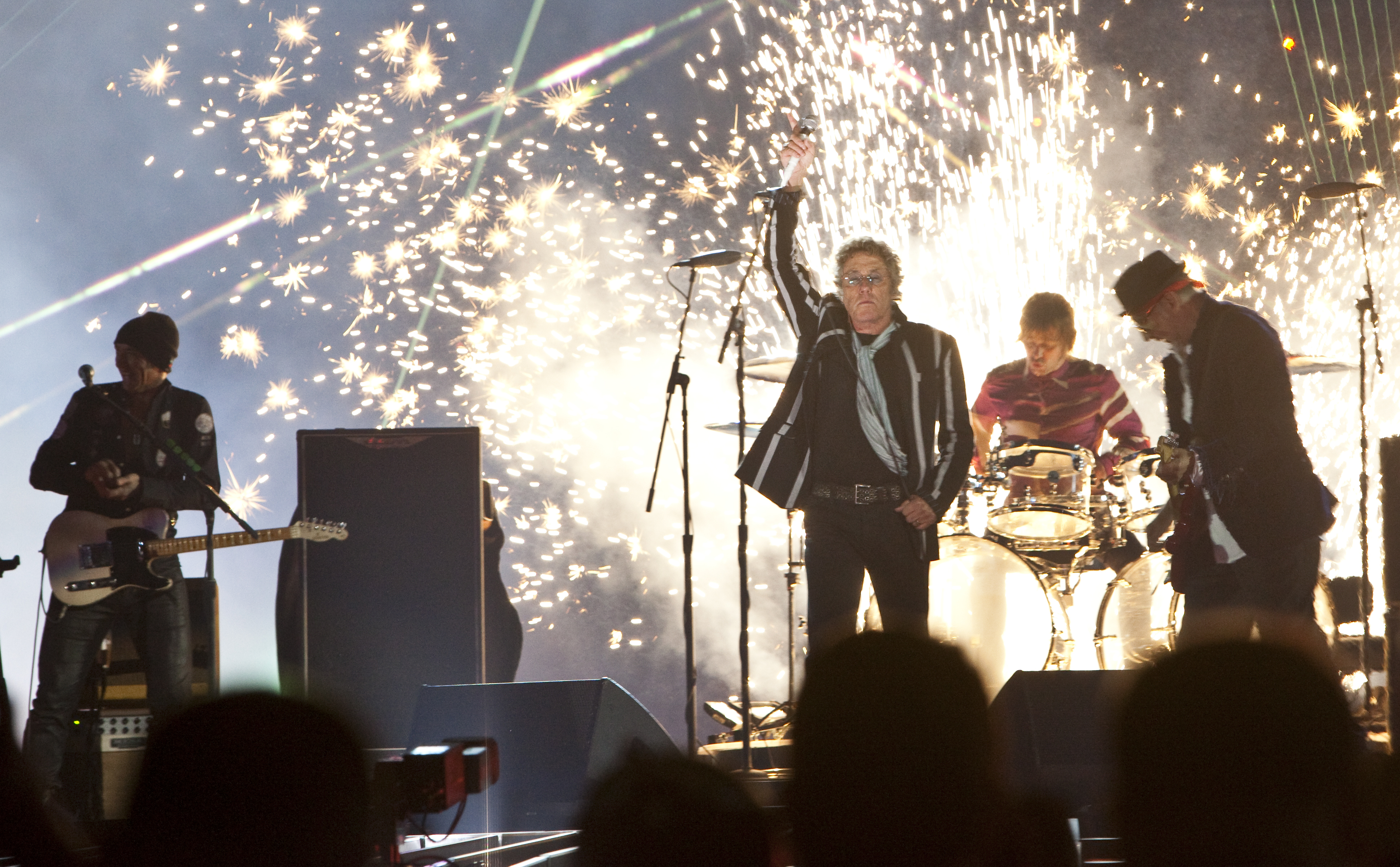 see more at